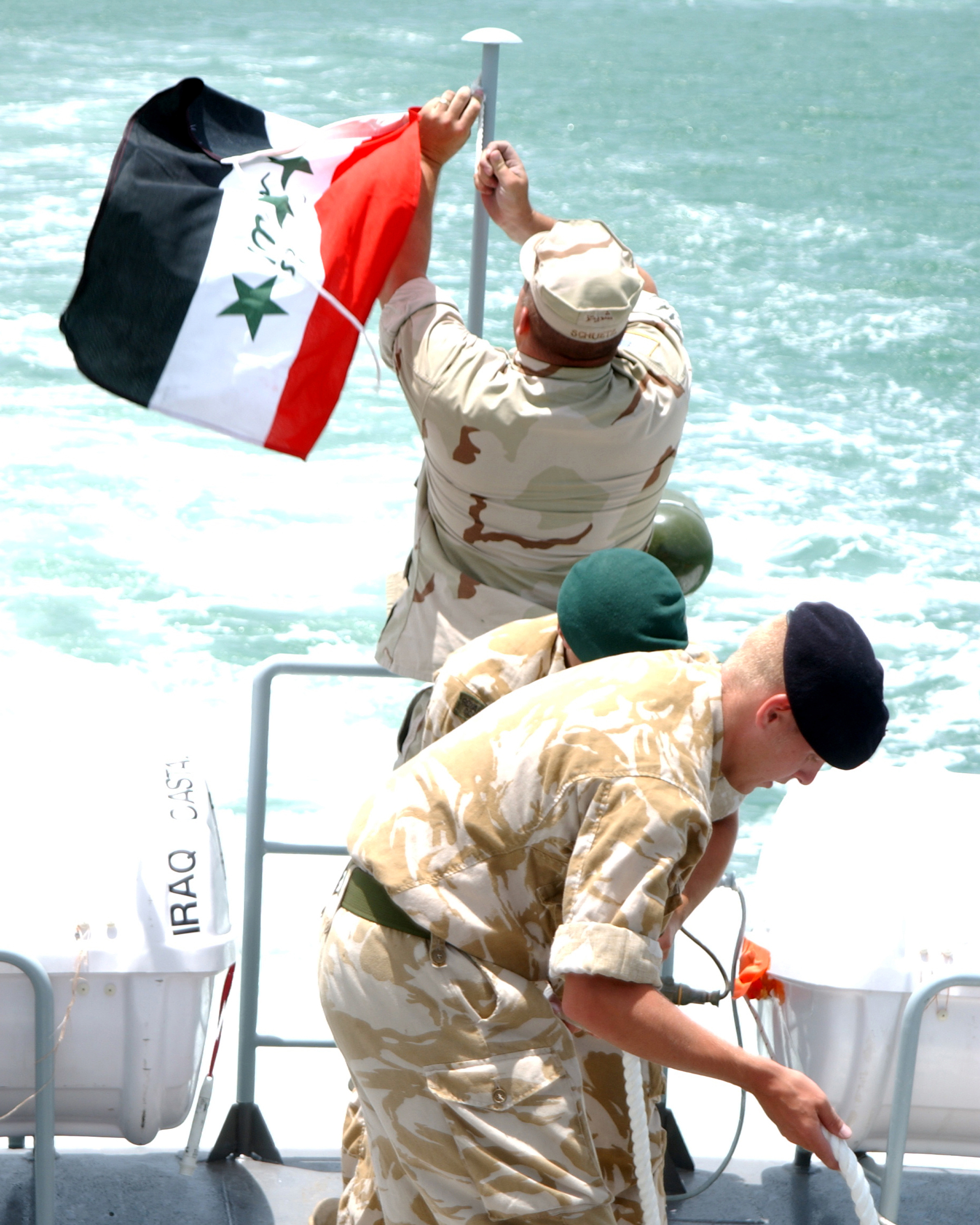 Manama, Bahrain - A British Royal Navy Sailor and Royal Marine coil a line on the deck while U.S. Navy Boatswain's Mate 1st Class Ron Schuetz raises an Iraqi flag on the fantail of Iraqi Patrol Craft 101. Coalition forces will soon deliver the 3rd and 4th of 5 patrol crafts to Umm Qasr, Iraq, as they continue to train and equip the newly created Iraqi Coastal Defense Force. U.S. Navy photo by Journalist 2nd Class Wes Eplen (RELEASED)